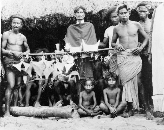 Jewelry and valuables, shown by the raja of Anakalang, Sumba